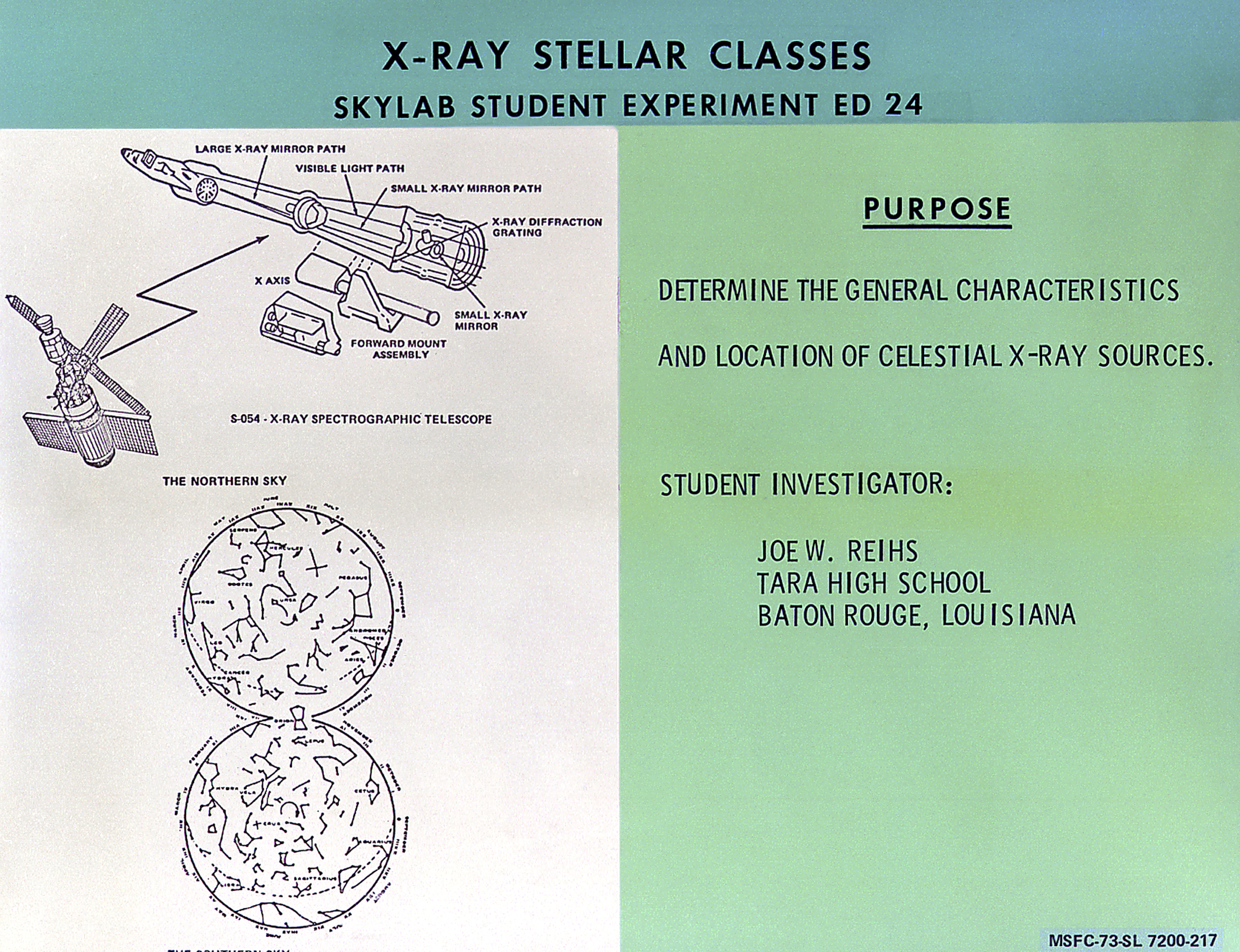 This chart describes the Skylab student experiment X-Ray Stellar Classes, proposed by Joe Reihs of Baton Rouge, Louisiana. This experiment utilized Skylab's X-Ray Spectrographic Telescope to observe and determine the general characteristics and location of x-ray sources. In March 1972, NASA and the National Science Teachers Association selected 25 experiment proposals for flight on Skylab. Science advisors from the Marshall Space Flight Center aided and assisted the students in developing the proposals for flight on Skylab.